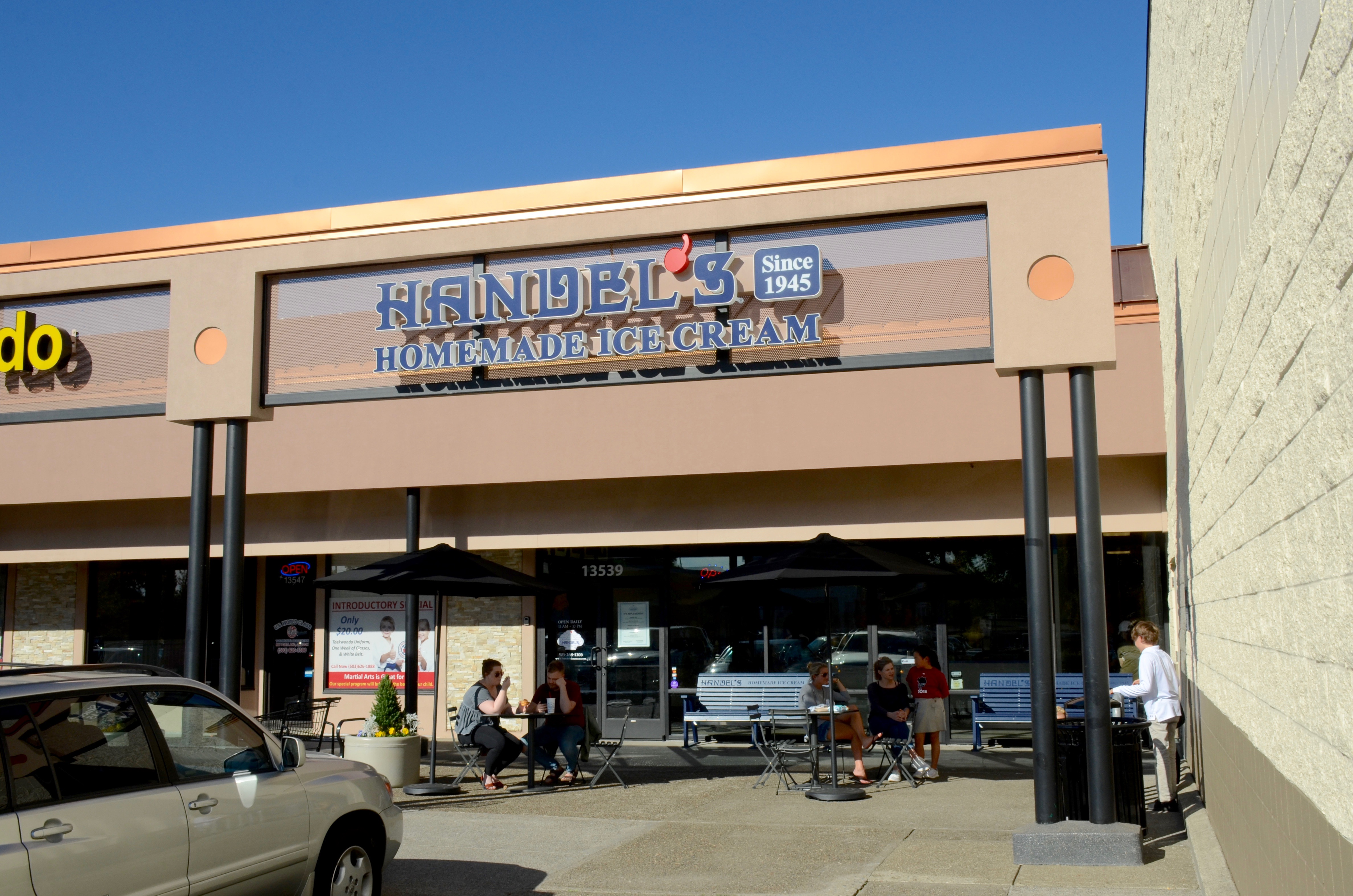 A Handel's Homemade Ice Cream shop in Sunset Mall, in Cedar Mill, Oregon - a suburban area in the western part of the Portland metropolitan area.